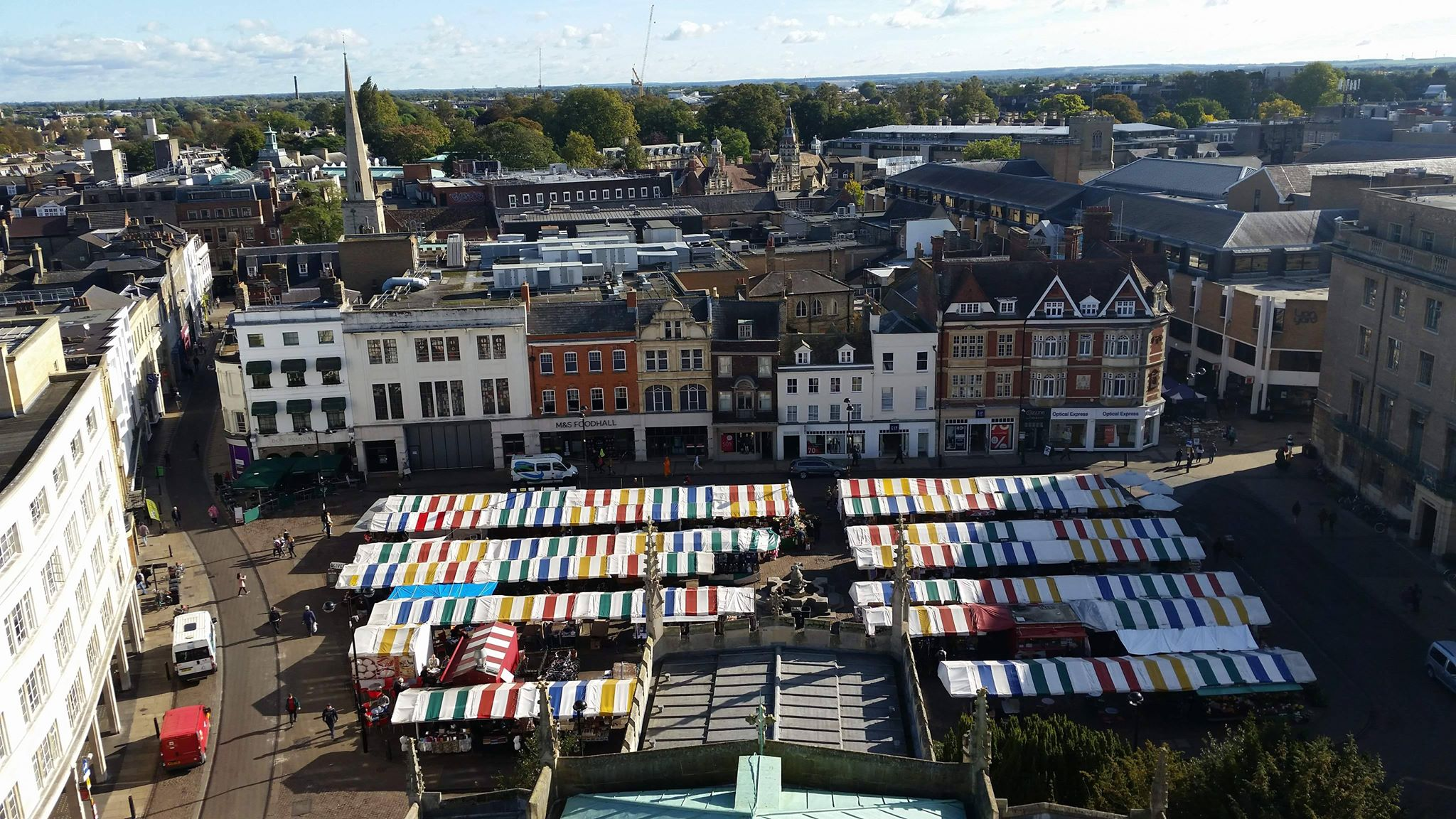 Market in Cambridge, England